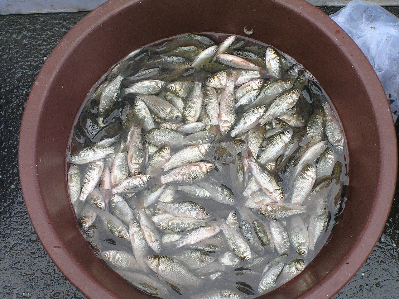 Crucian-Market in China